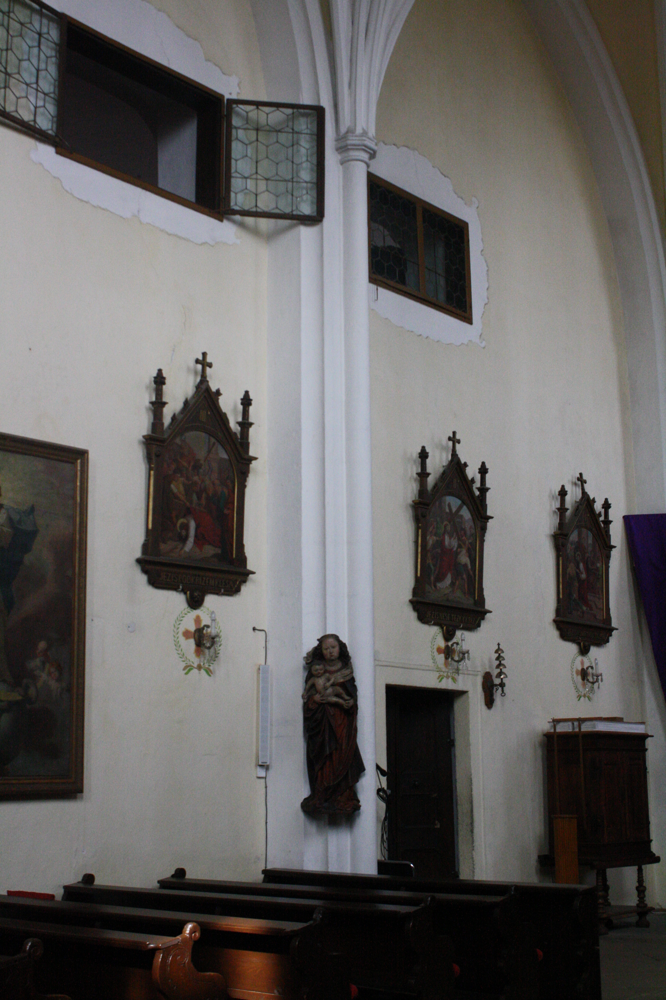 Borovany, Church of the Visitation of Our Lady